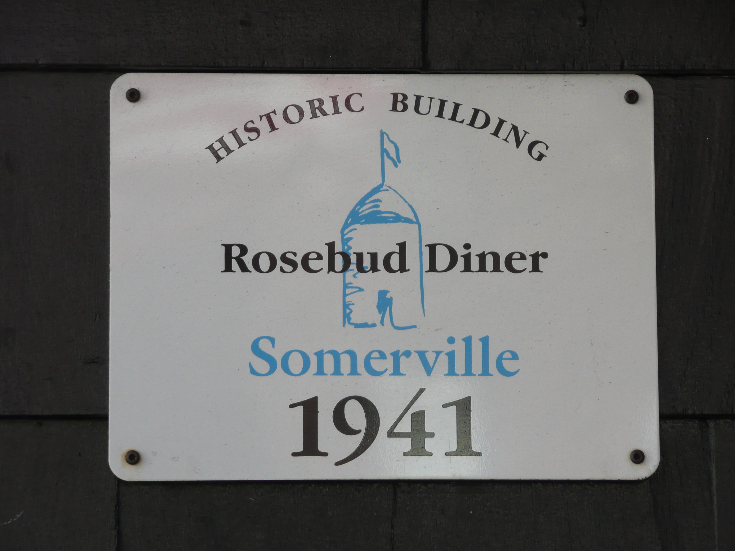 The Rosebud is a historic diner at 381 Summer Street in Somerville, Massachusetts near Davis Square. Historic marker sign for the Rosebud Diner, in Somerville, MA. The diner was built in 1941 by Worcester Lunch Car Company for the Nichols family.[2] As of 2009, the Nichols family still owns the restaurant. The diner was added to the National Register of Historic Places in 1999.